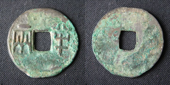 The front and reverse sides of a metal coin, 34 mm in diameter, issued during the de facto reign period (188–180 BCE) of Empress Dowager Lü Zhi during the early Han Dynasty of China.